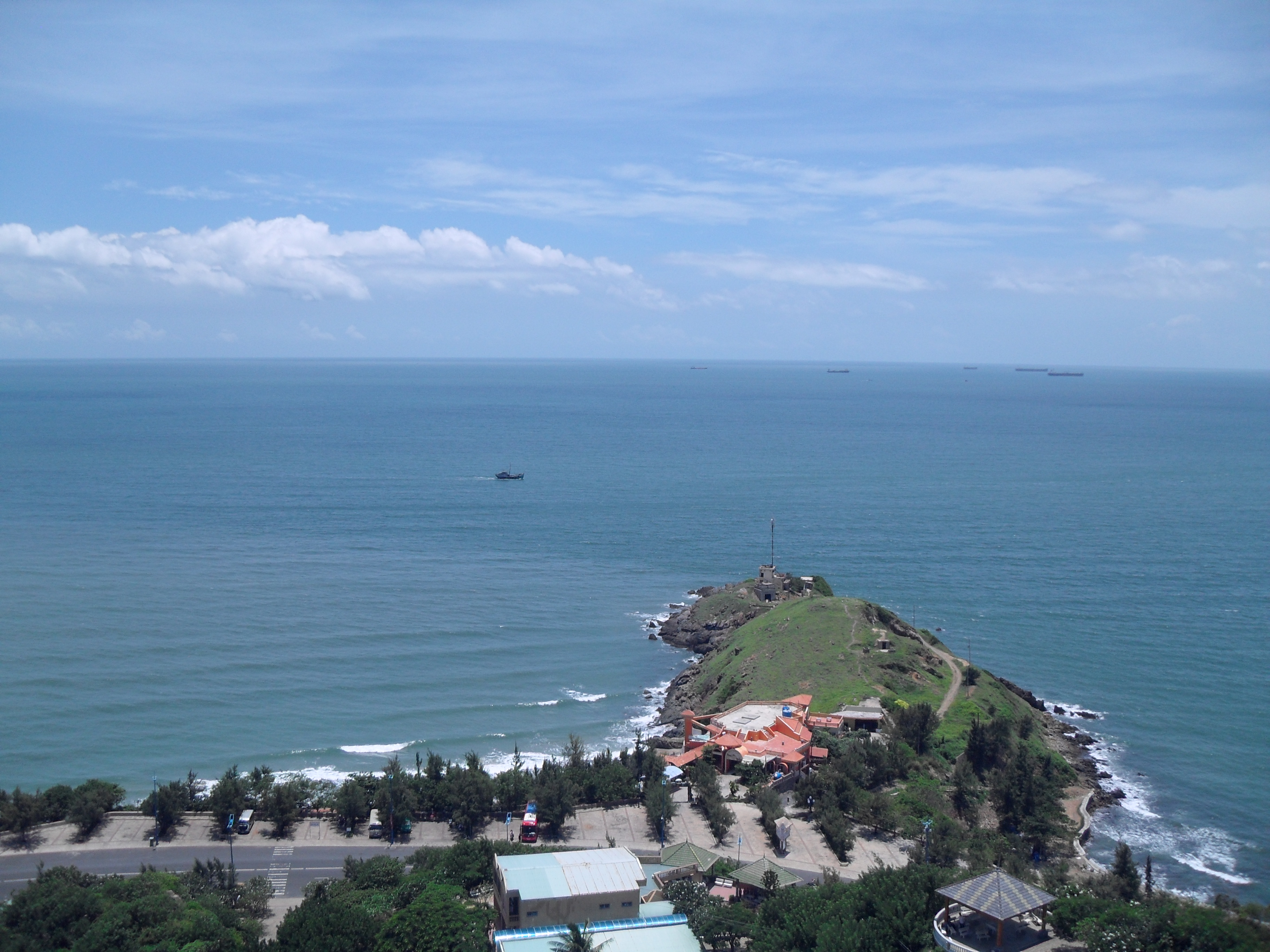 View over Saint-James Cape from the giant statue of Jesus in Vung Tau, Vietnam